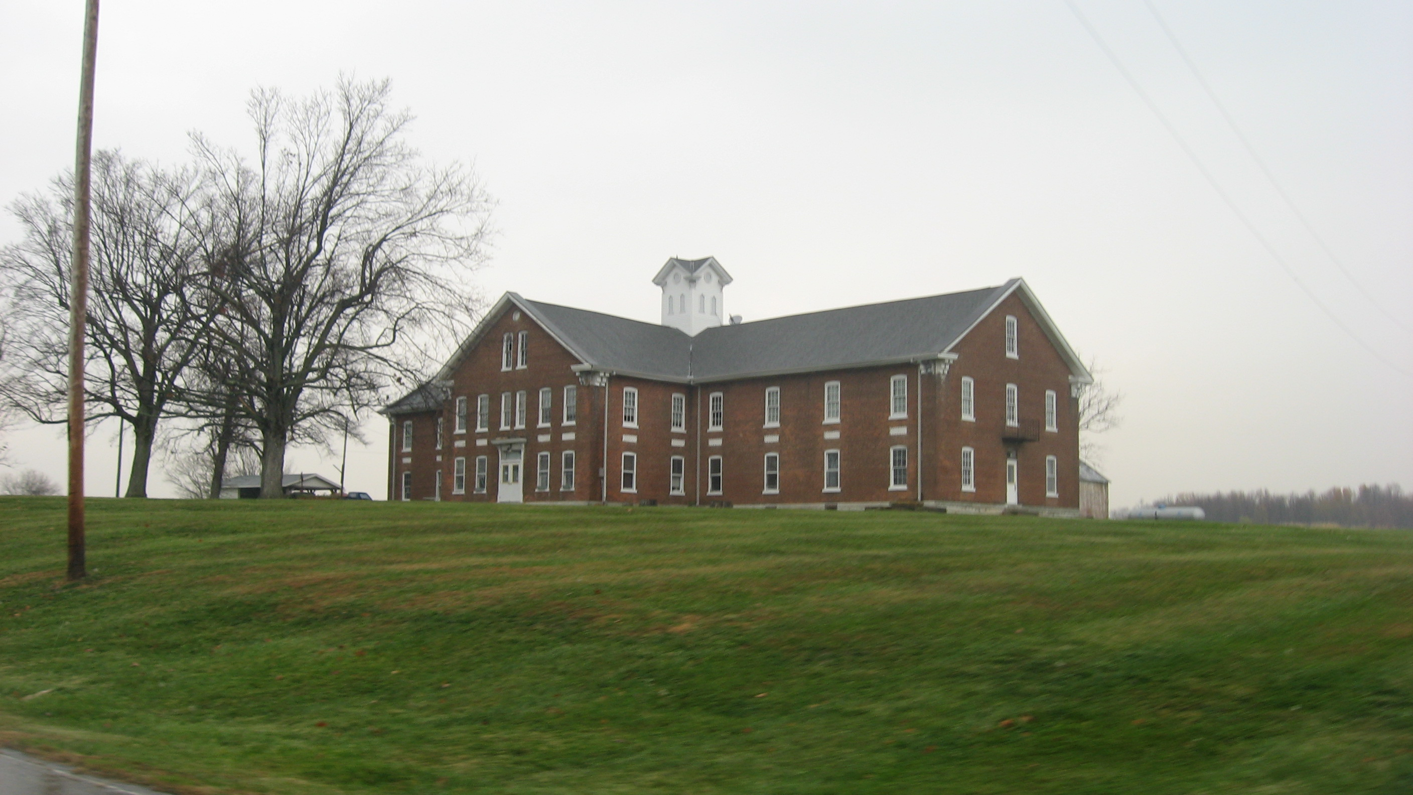 Front and eastern side of the Dearborn County Asylum for the Poor, located at 11636 County Farm Road in Manchester Township, Dearborn County, Indiana, United States. Built in 1882, it is listed on the National Register of Historic Places.